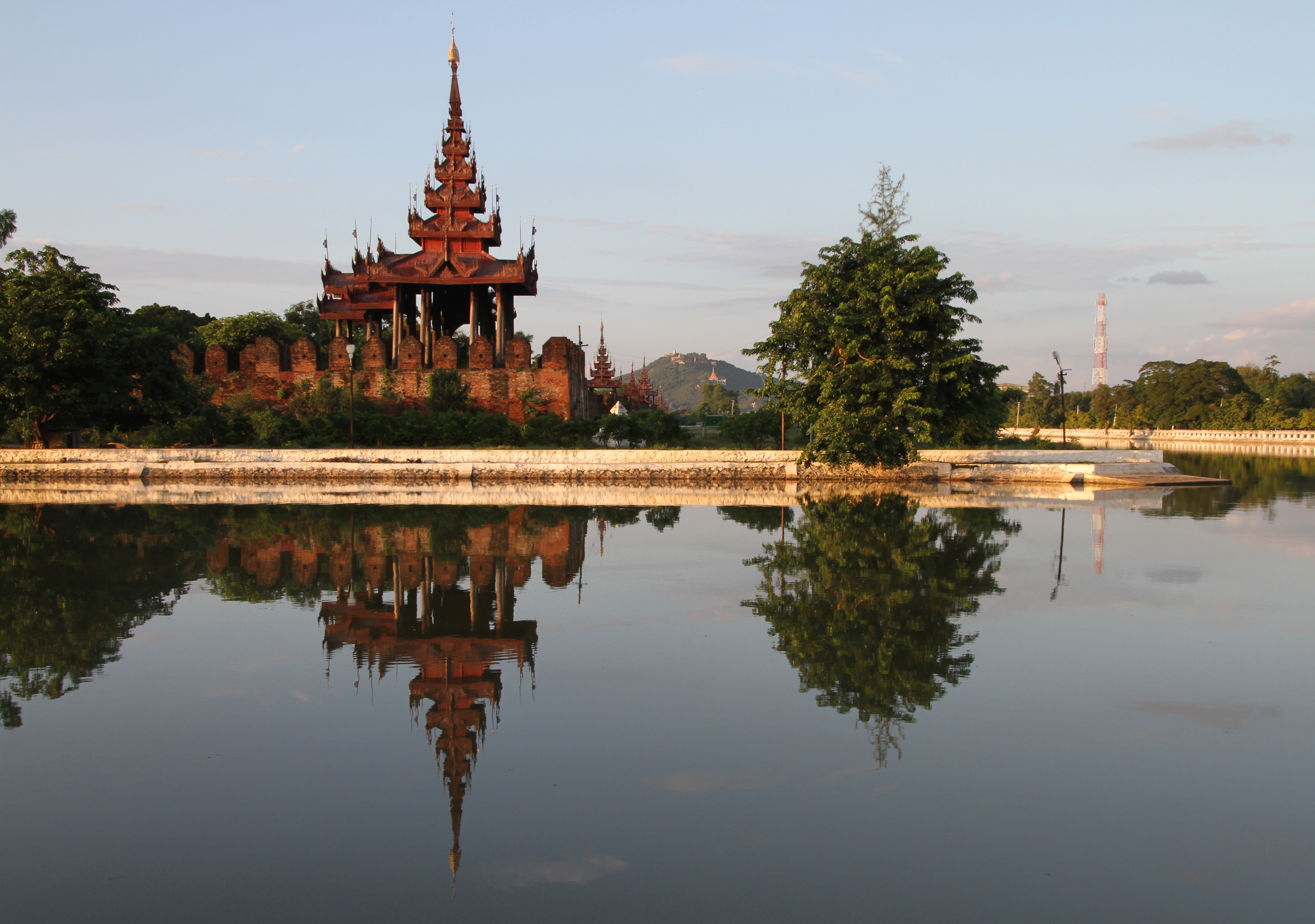 Palace in Mandalay in Myanmar.